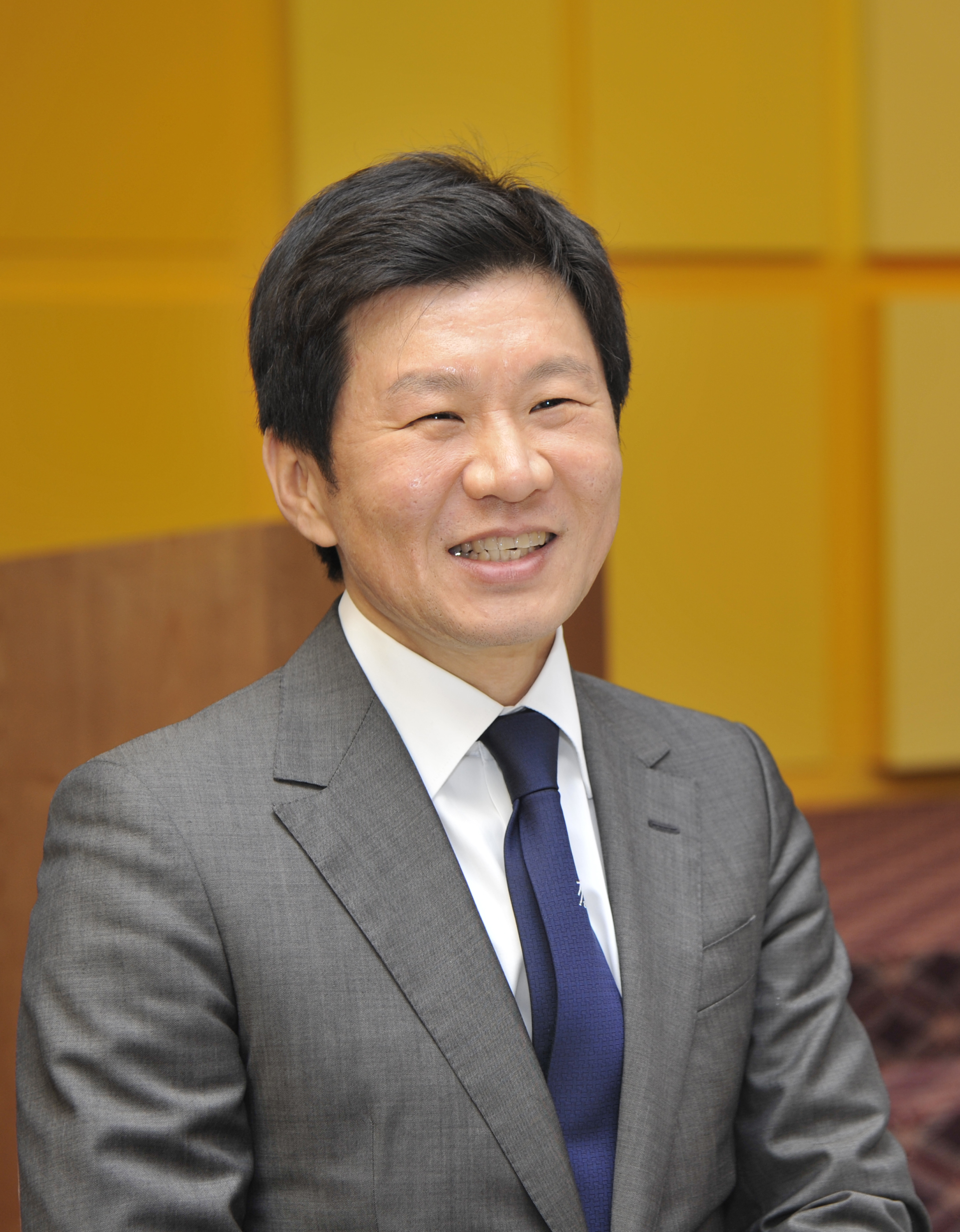 Hyundai Development Company chairman and CEO Chung, Mong-gyu